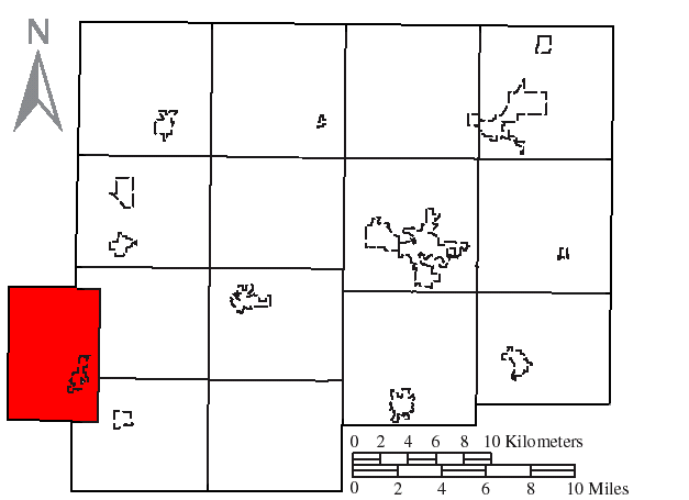 Made by the US Census and modified by myself